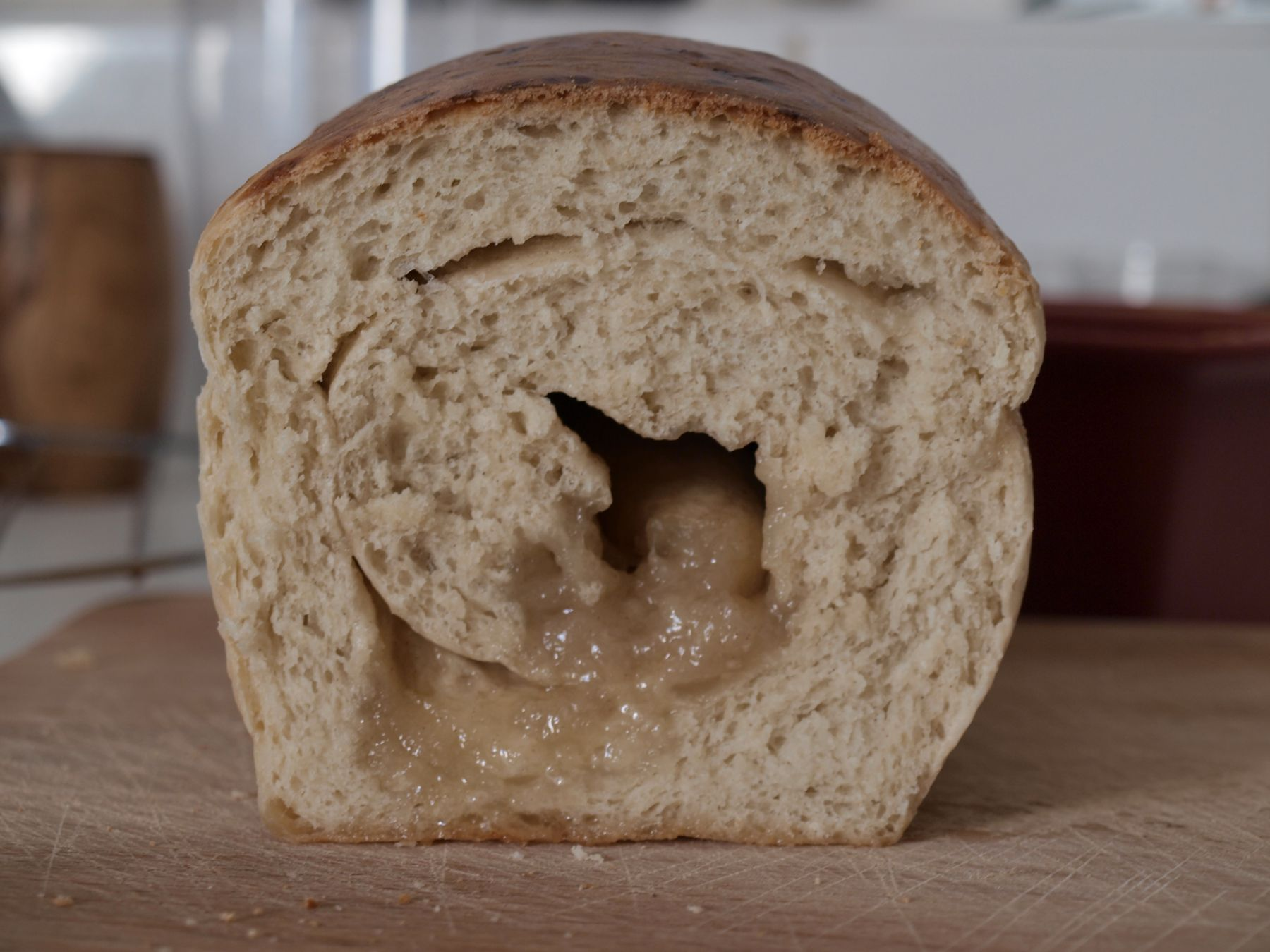 look at all the sugar! i just had a piece with some coffee, delicious :p i'm writing my thesis and in the meantime baking goodies! inspired by evenings of work on filling in the long frisian part of my family tree in geni